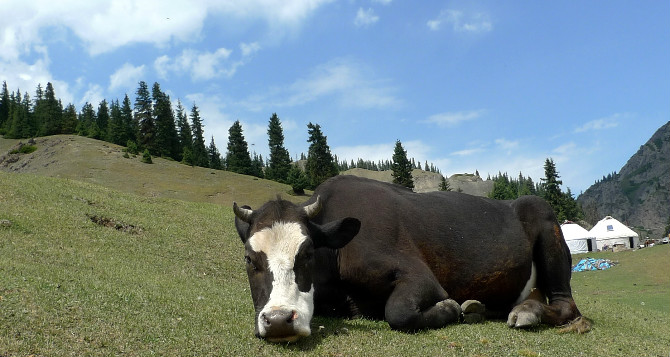 Tianshan Mountain, Urumqi, Xinjiang